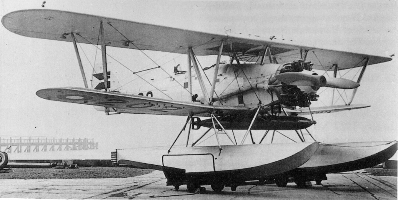 Hawker Dantorp undergoing tests at the MAEE Felixstowe, November 1932